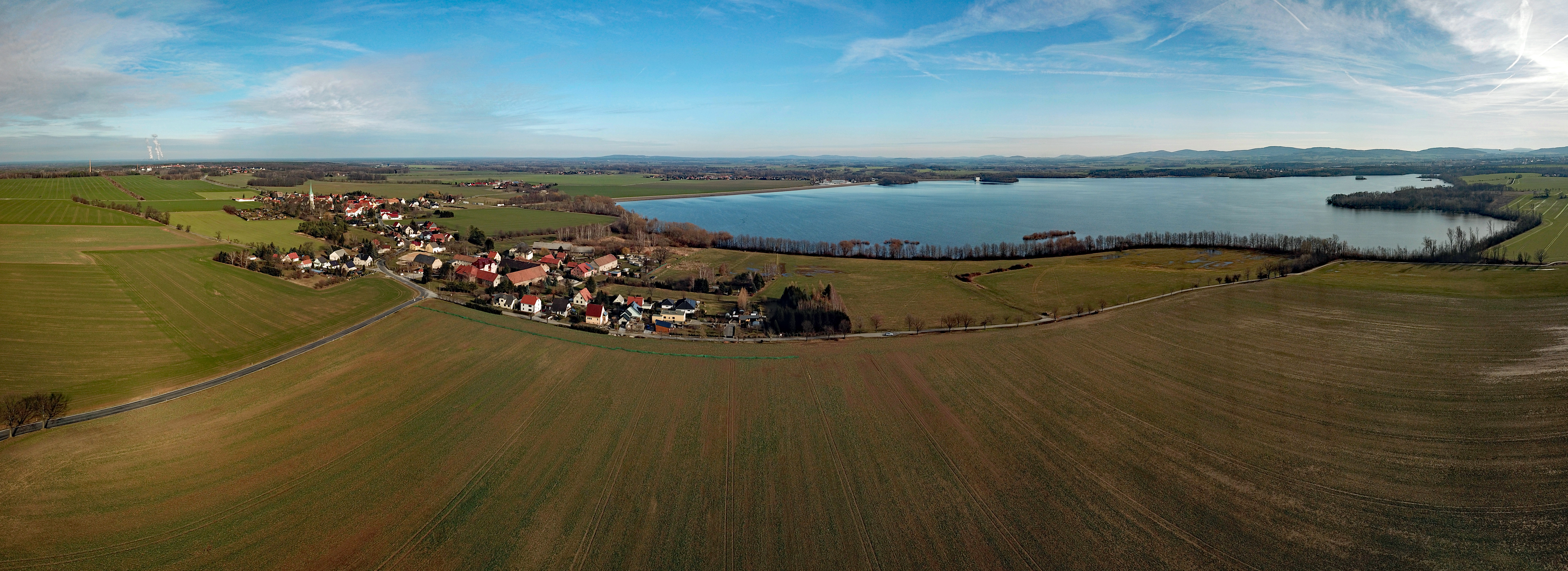 Dahlowitz, Großdubrau, Saxony, Germany Hornjoserbsce: Powětrowy wobraz Dalic z Budyskim spjatym jězorom